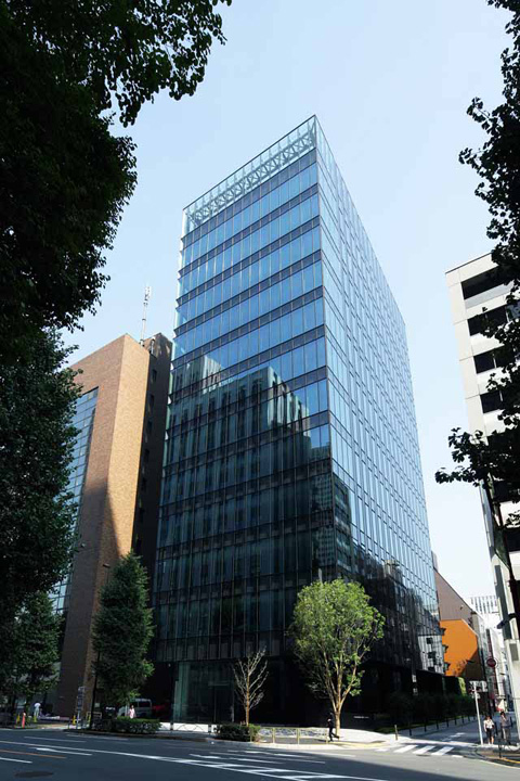 Jトラスト本社